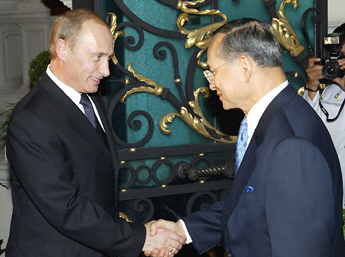 BANGKOK. President Putin with the King of Thailand, Bhumibol Adulyadej.